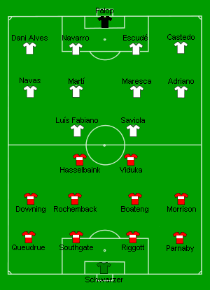 Line-ups for the 2006 UEFA Cup Final between Sevilla and Middlesbrough